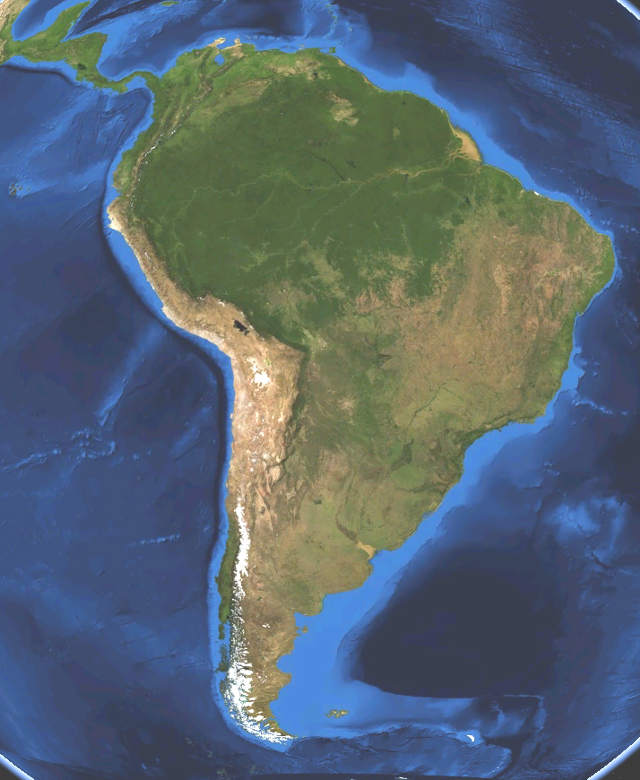 Satellite map of South America. Land terrain and bathymetry (ocean-floor topography).